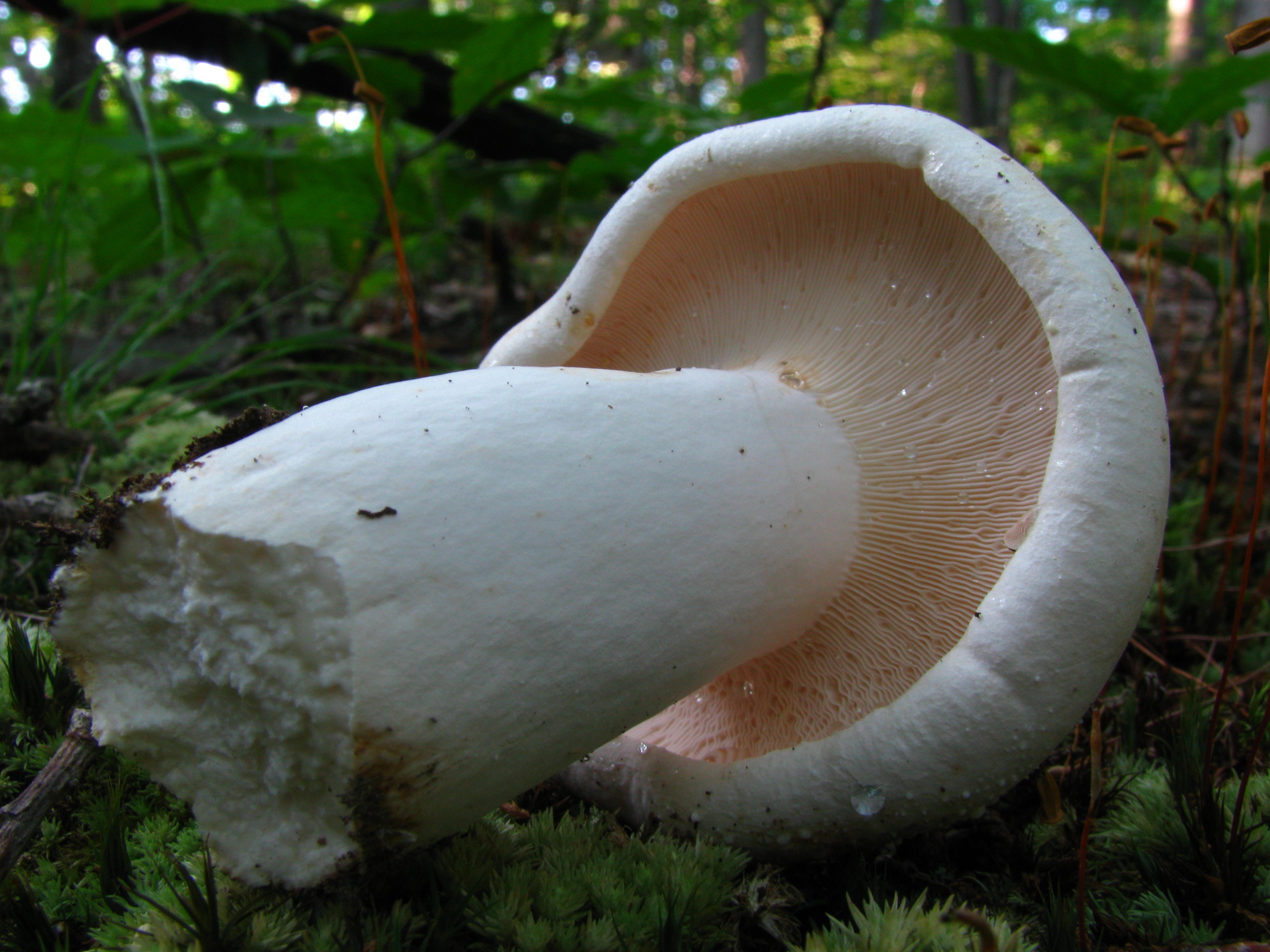 The milkcap mushroom Lactarius deceptivus Peck. Specimen photographed in Strouds Run State Park, Athens, Ohio, USA. "Notes: These white hot milkies were popping up they the moss at the base of an oak tree."